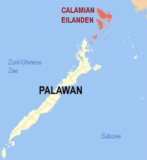 location of the Calamian Islands in the Philippine province of Palawan.